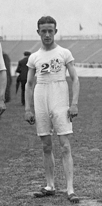 Members of the British athletic team at the 1908 London Olympics, Harold A. Wilson